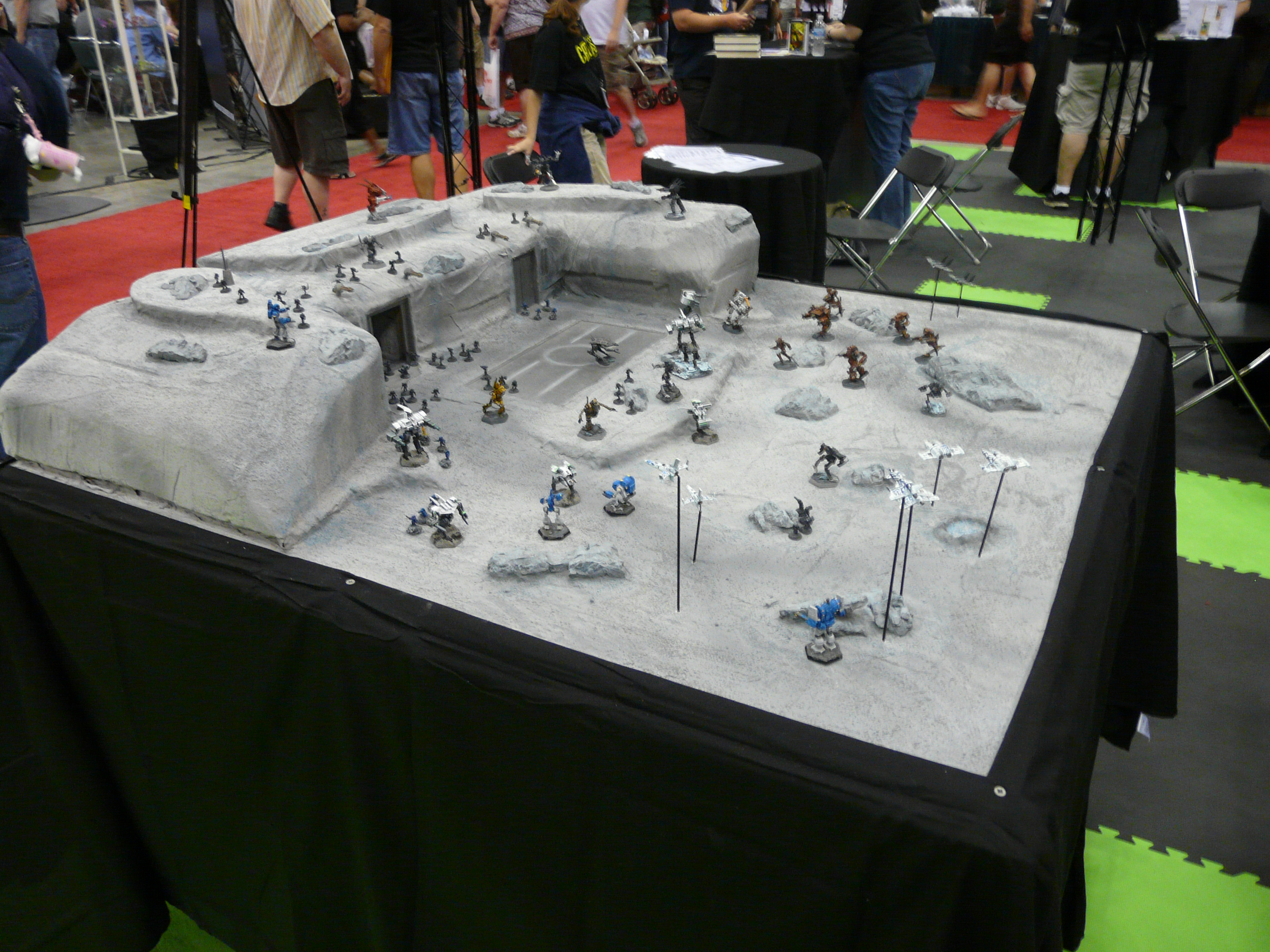 Picture of Gen Con Indy 2008 in Indianapolis, Indiana, USA.